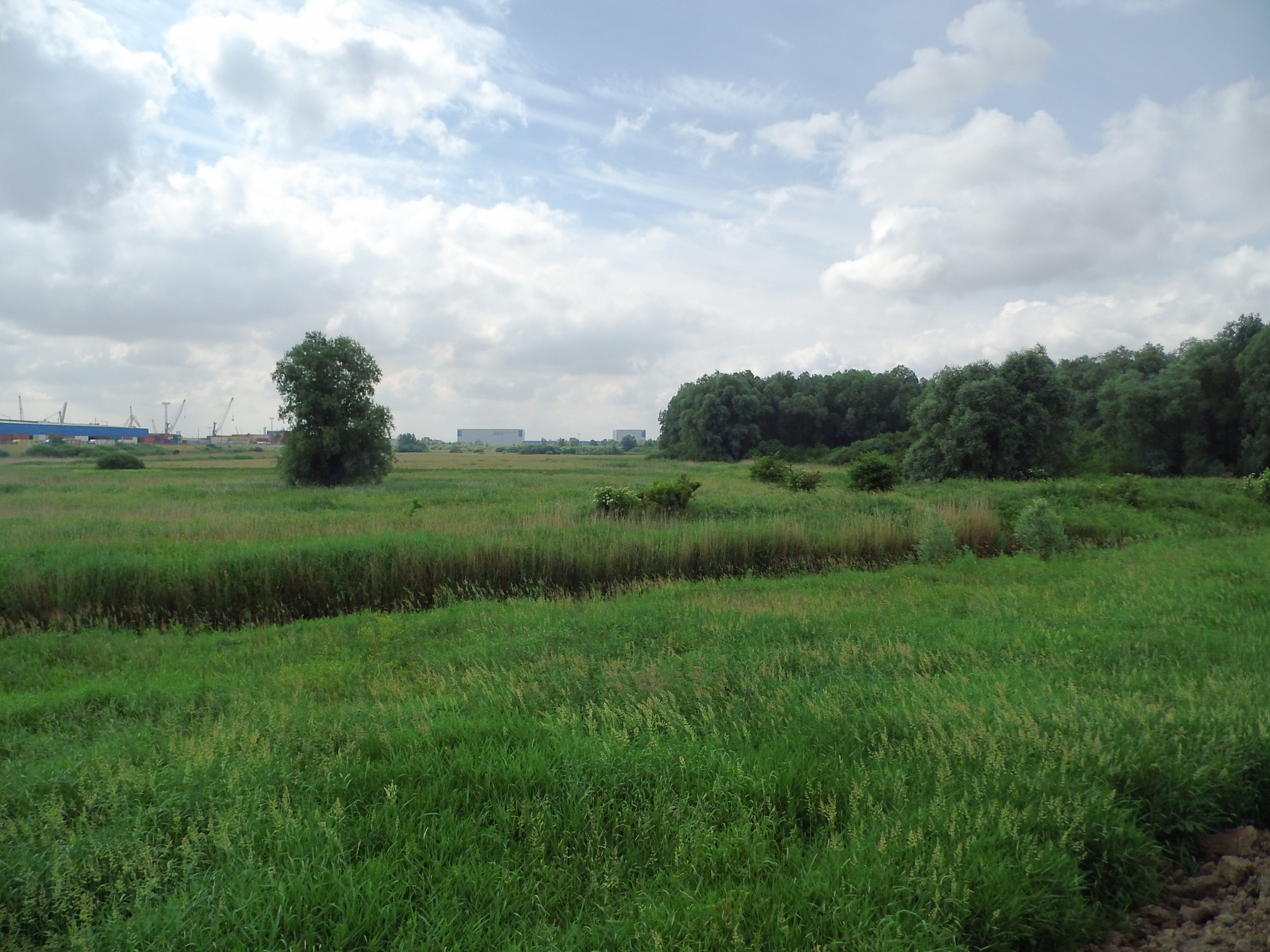 Flood protection polder "Neustädter Hafen" in Bremen, Germany, as seen from the southern end. To the left on the horizon some port facilities. In the middle, about 2.2 km away, the logistics center of Bremer Lagerhausgesellschaft BLG.